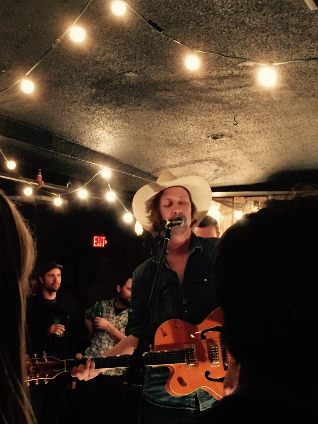 Del Barber